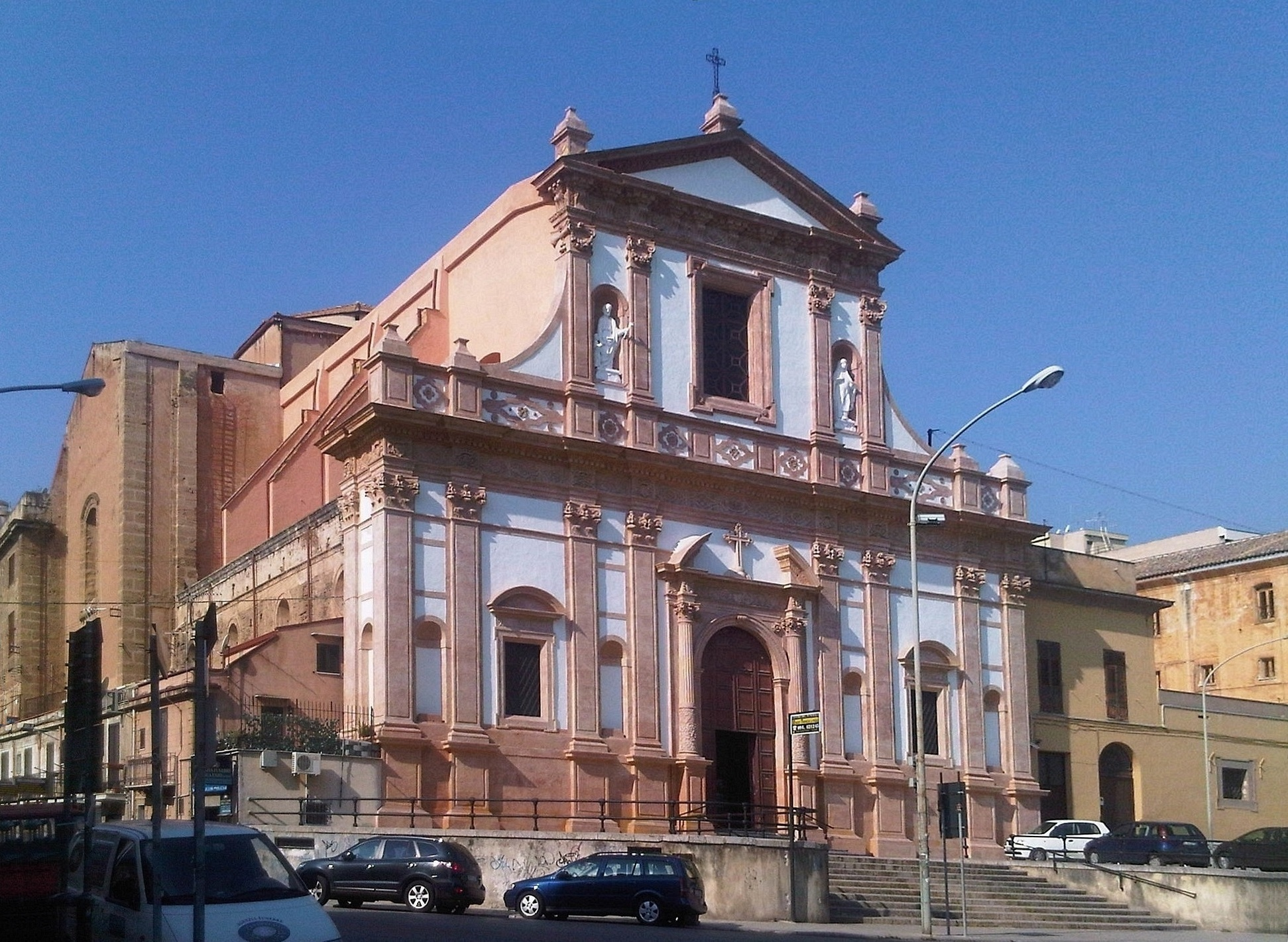 Church Our Lady of remedies and Carmelite convent, Palermo, Independence place